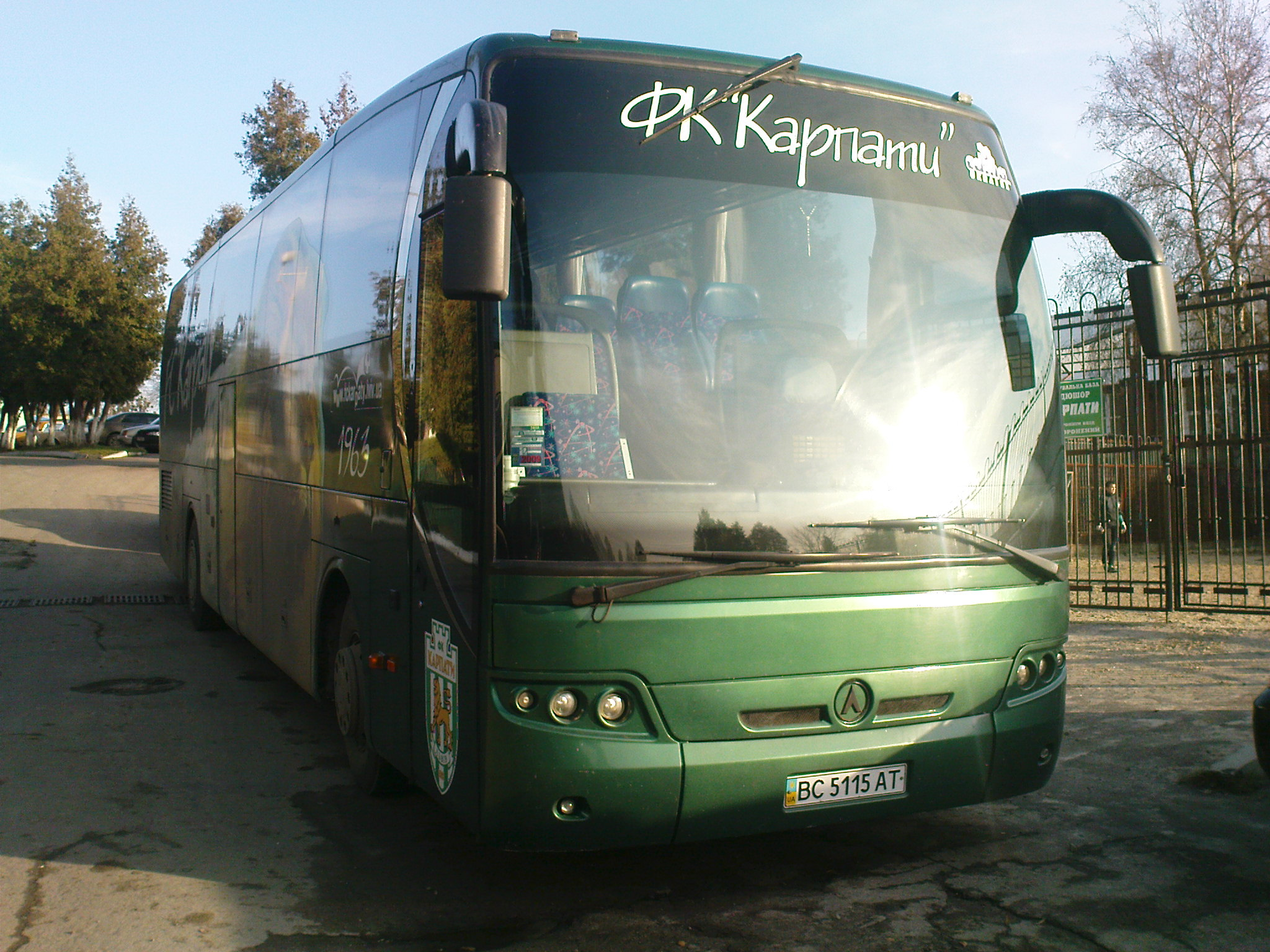 NeoLAZ 12 (НеоЛАЗ 5208) coach of Football Team Karpaty Lviv, Ukraine.